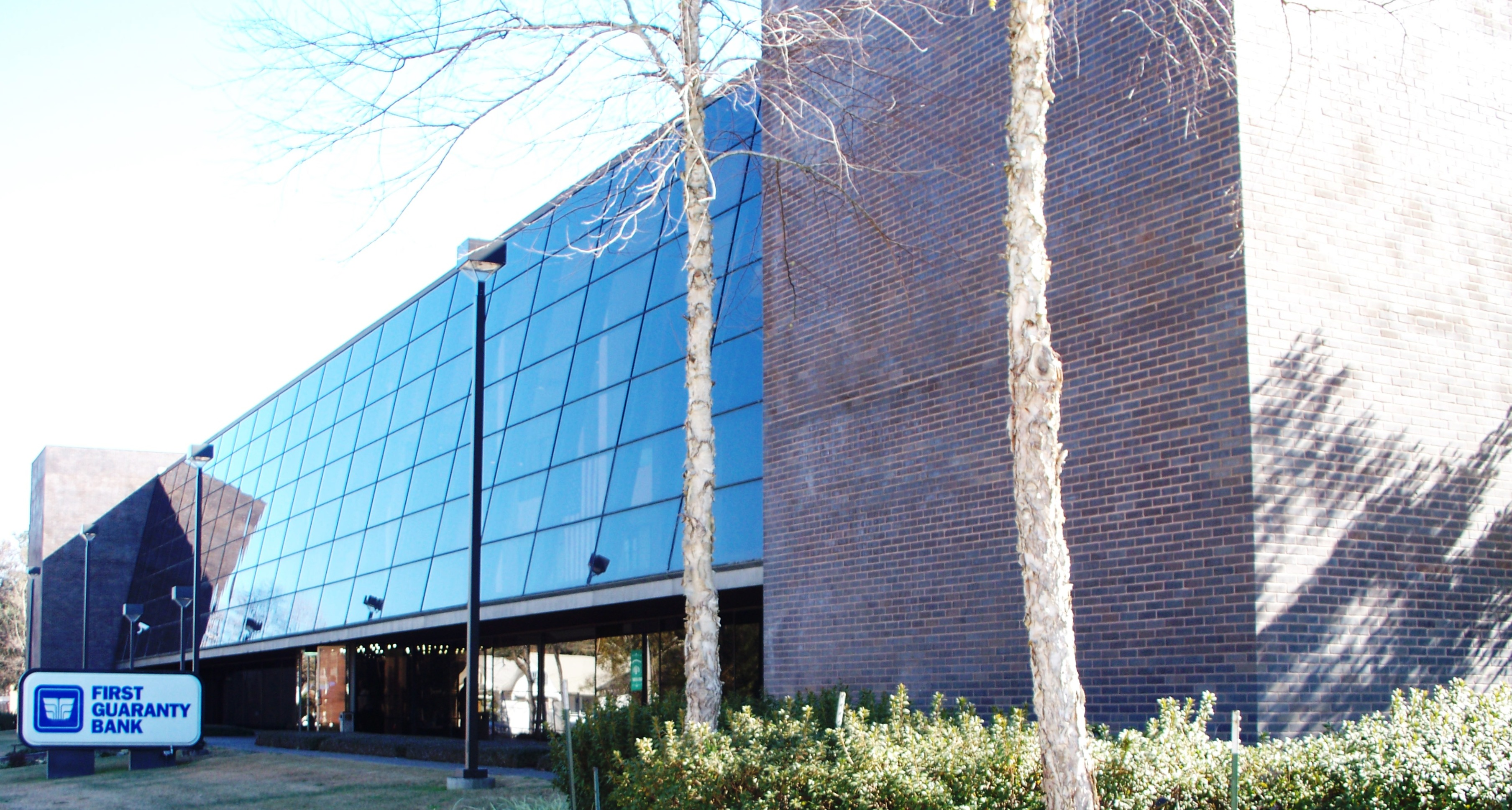 First Guaranty Bank Main Office 2010Jan15